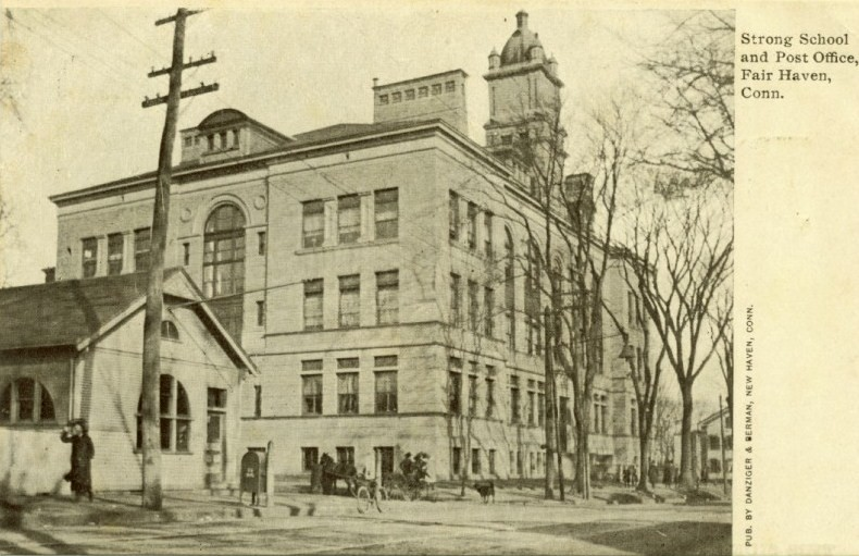 Postcard: Strong School and U.S. Post Office, Fair Haven, Connecticut, undivided-back type of postcard, a type printed from 1901-1907; slightly cropped along edges